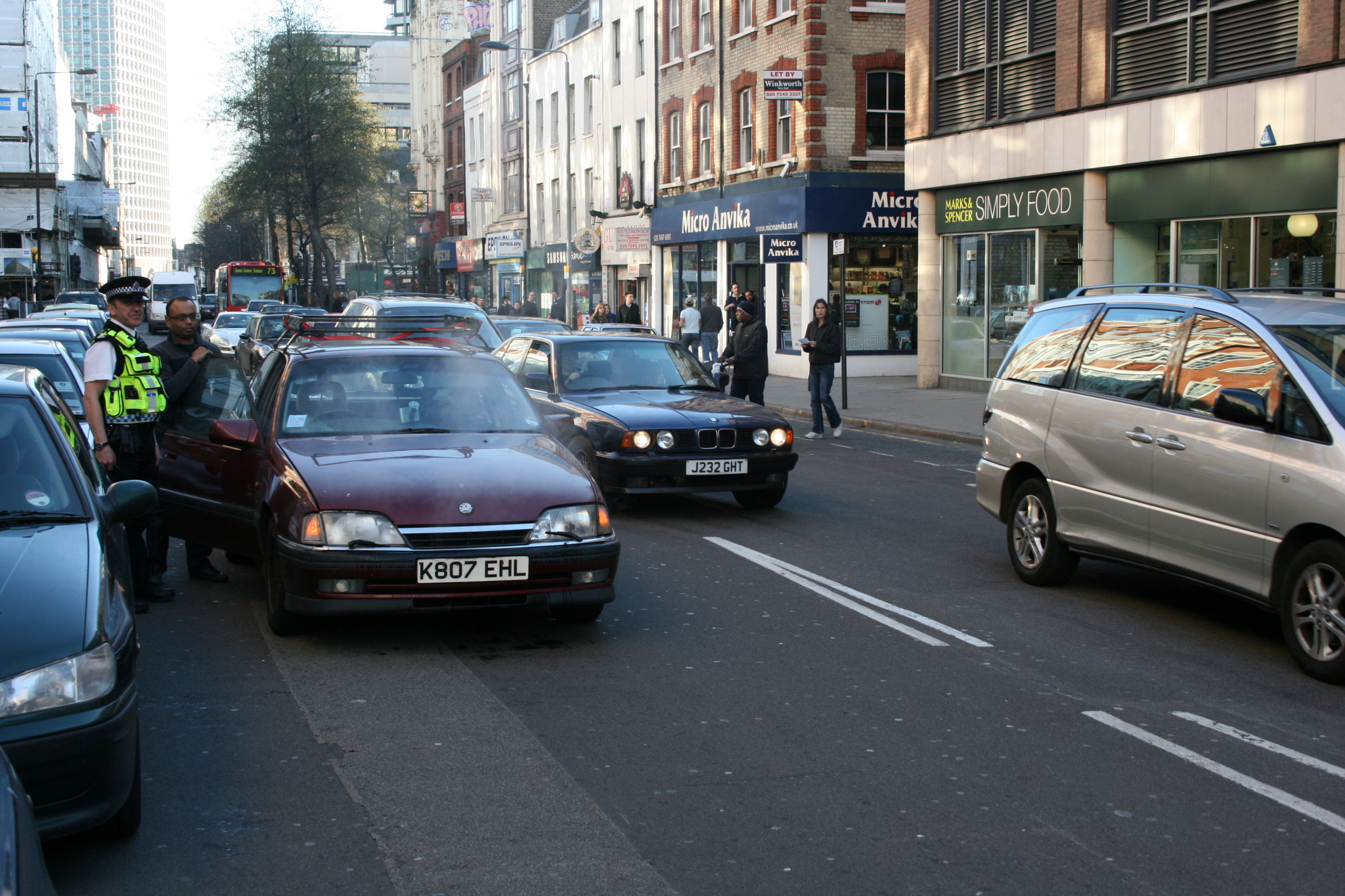 Broken down 1993 1998CC Vauxhall Carlton car in congestion caused by the February 10, 2008 anti-Scientology protests in London.